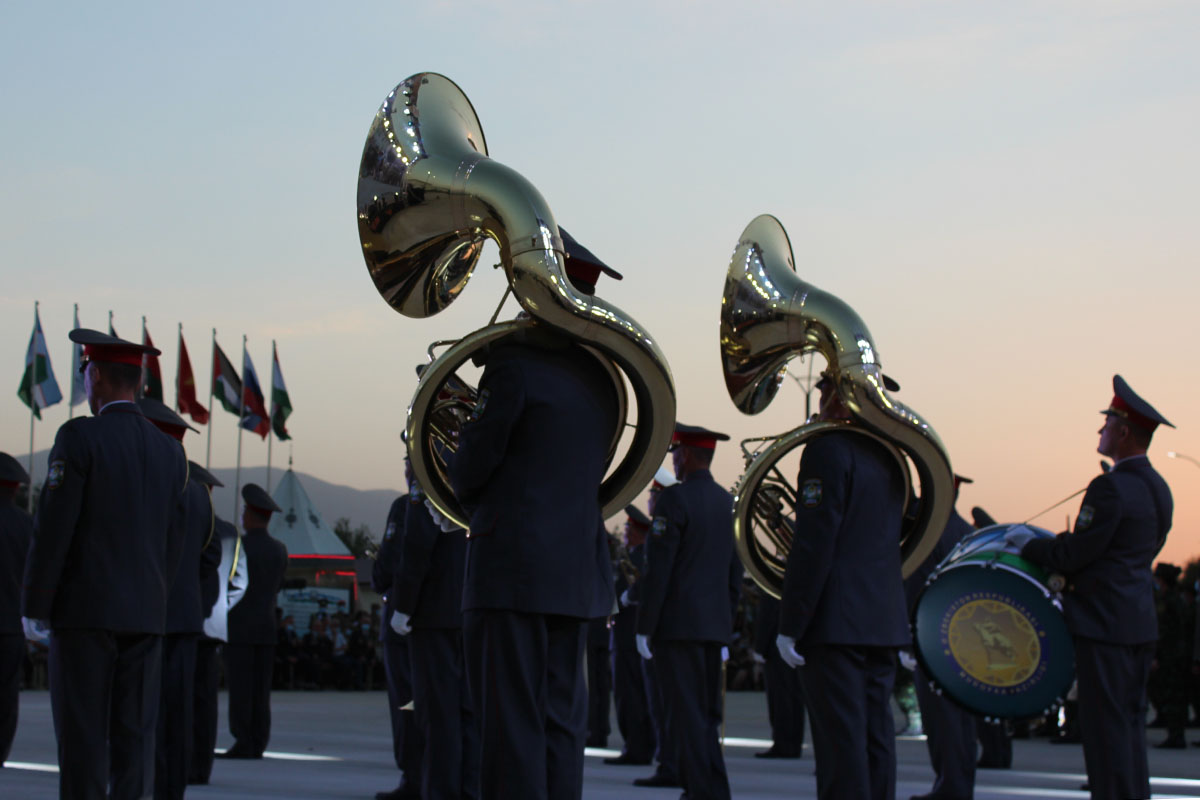 Узбекистане стартовал конкурс «Военно-медицинская эстафета»